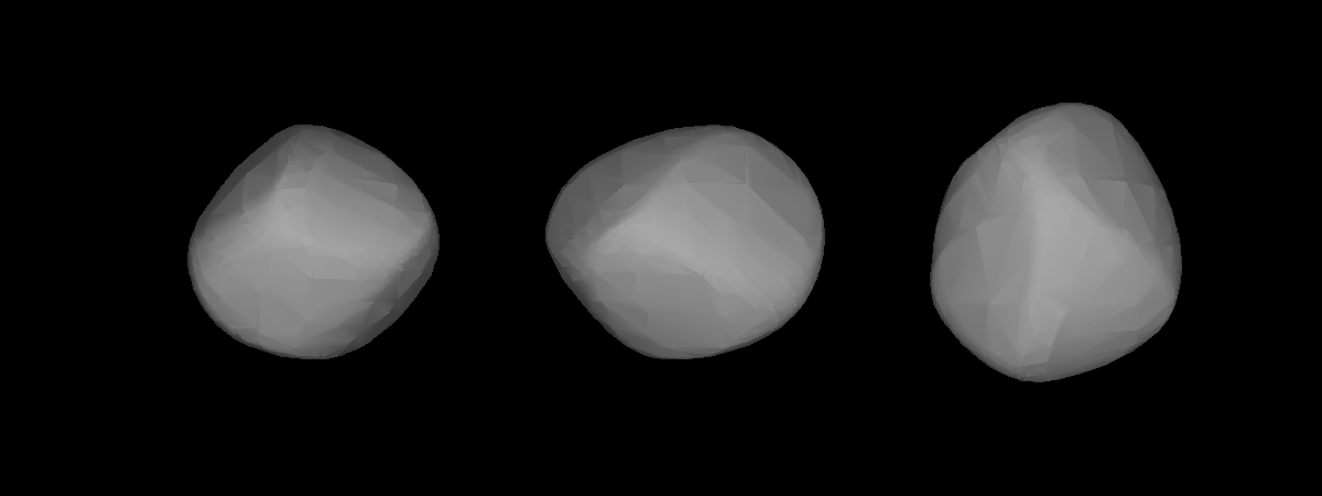 A three-dimensional model of 184 Dejopeja that was computed using light curve inversion techniques.